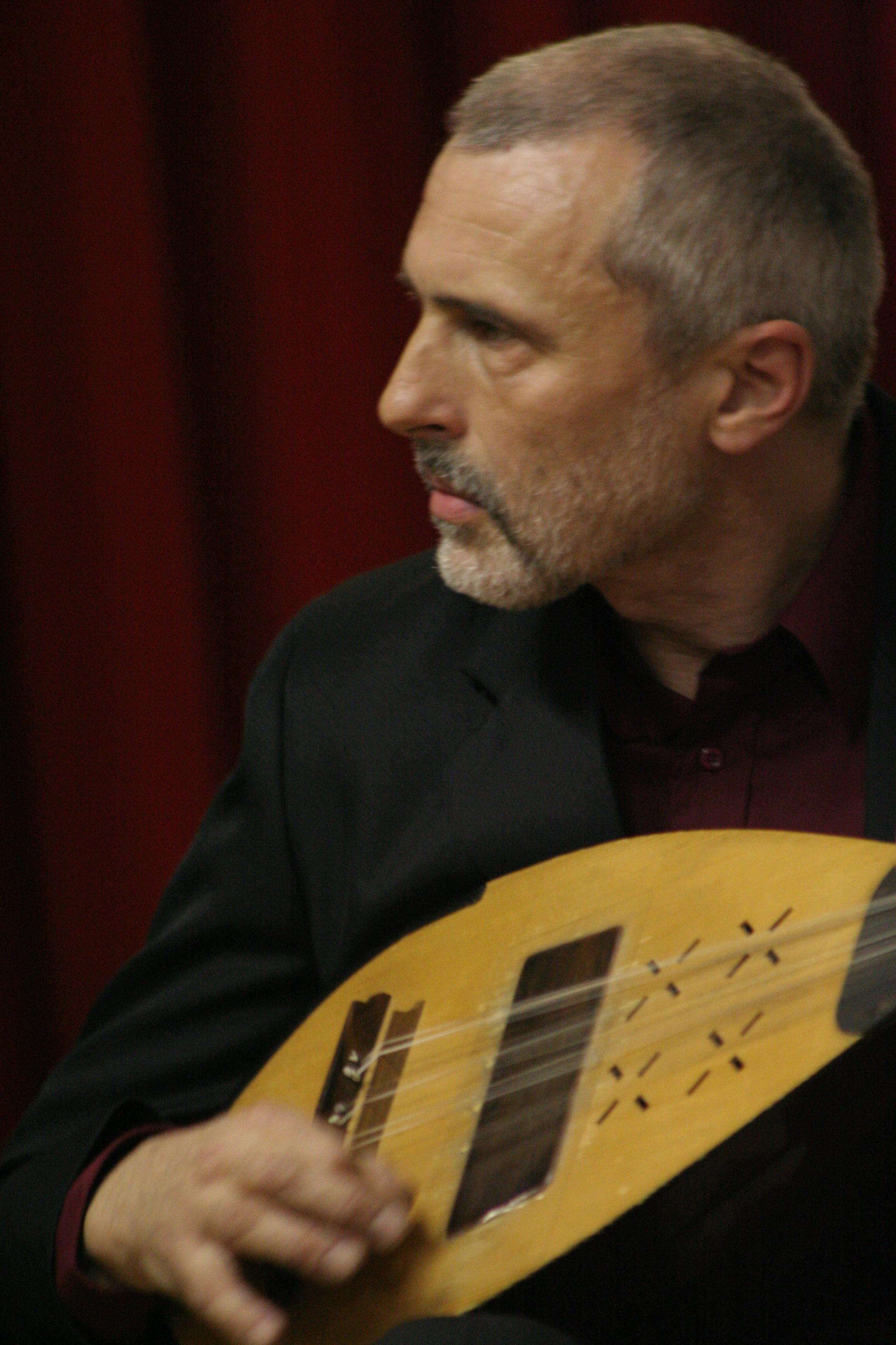 Géza Fábri.